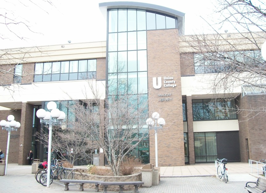 MacKay library at Union County College in Cranford, New Jersey.